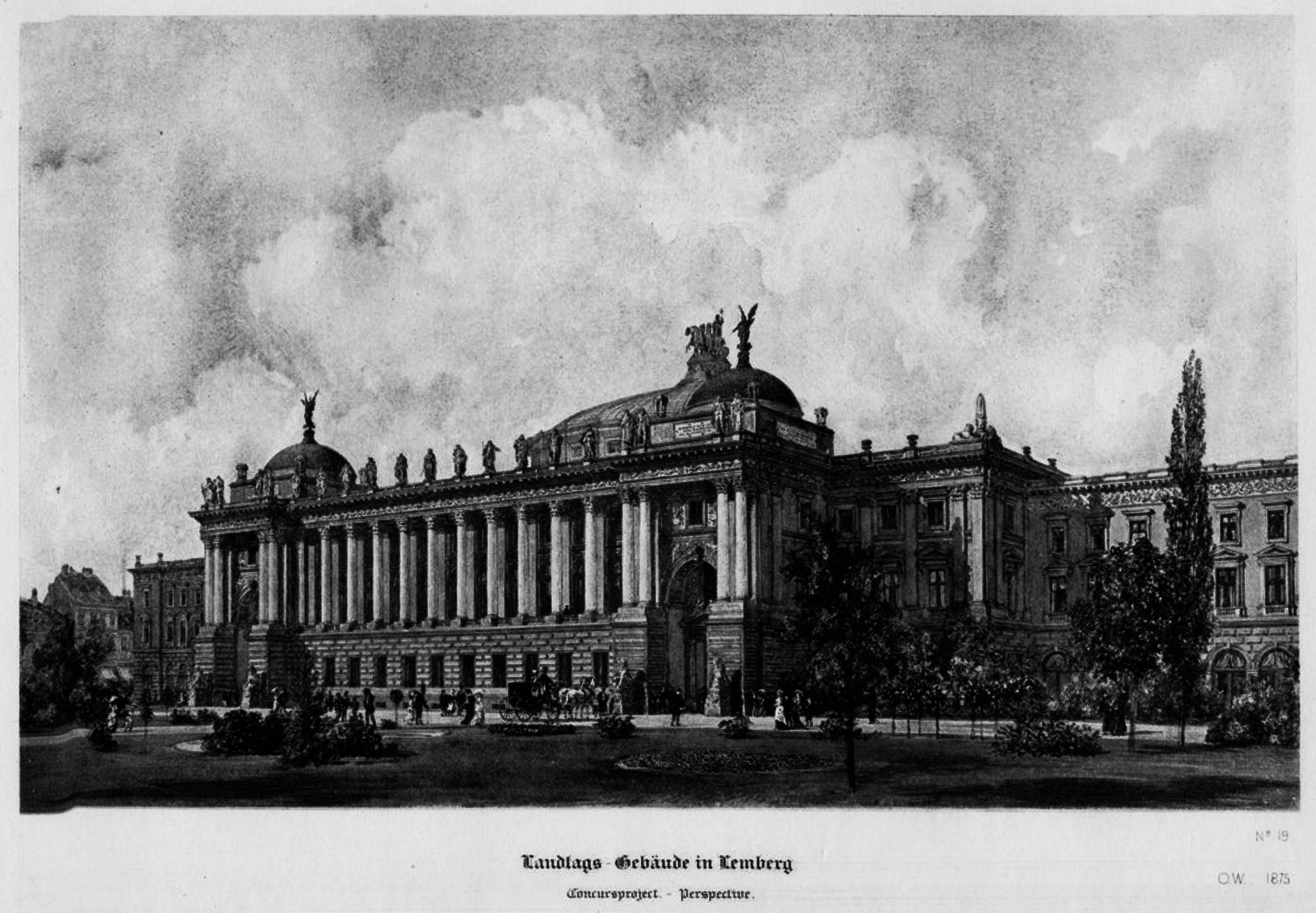 Сompetitive projects. Lviv.